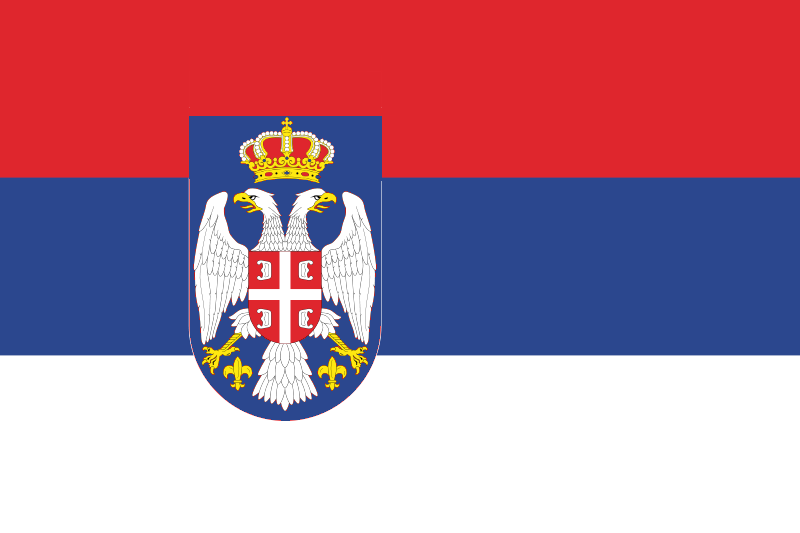 Variant of the flag of the Republic of Serbian Krajina.